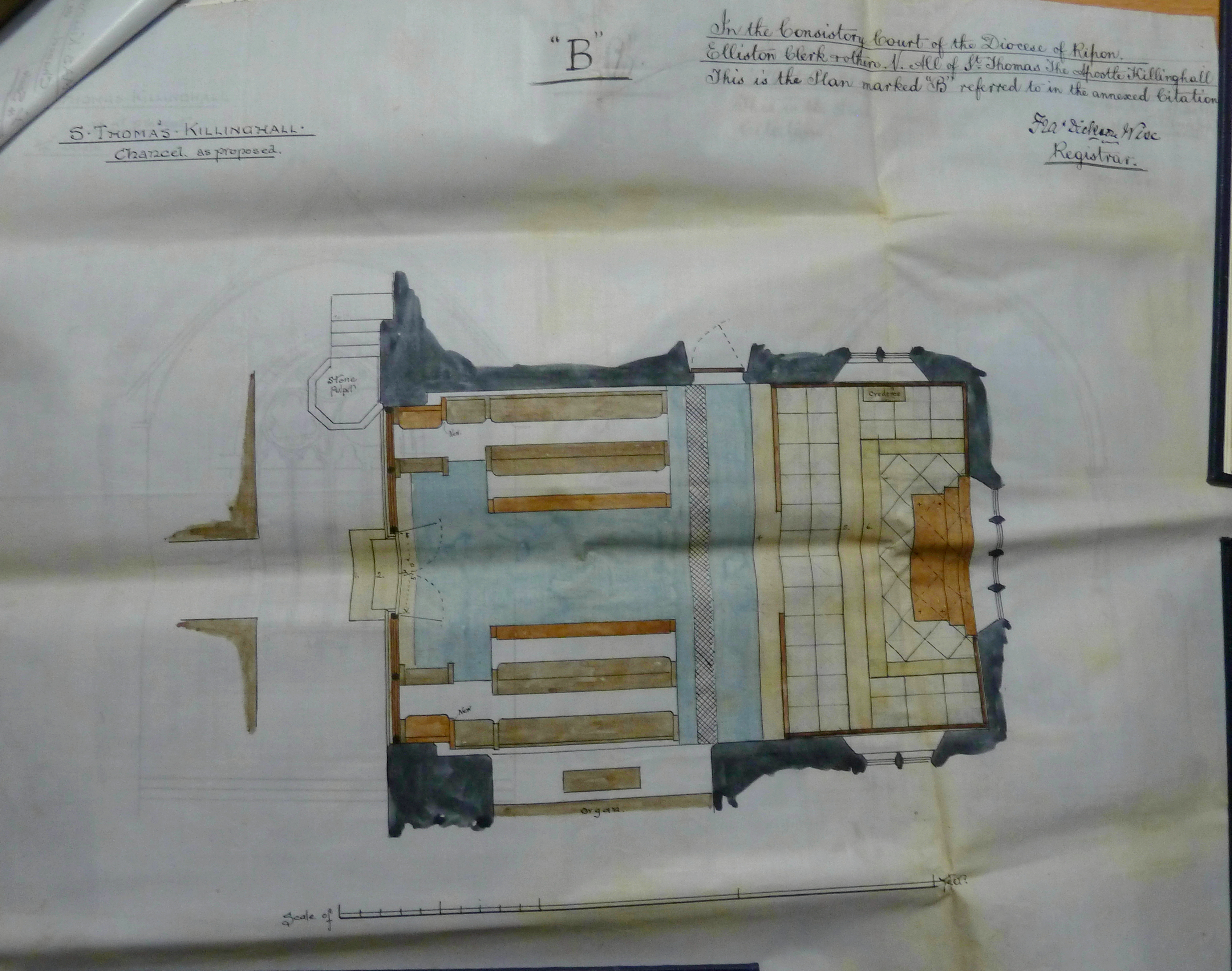 1905 plan of chancel in Church of St Thomas the Apostle, Killinghall. This is Fowler's drawing of the intended re-ordering of the chancel. (By 1898 the original architect William Swinden Barber had retired and moved to Hampshire).